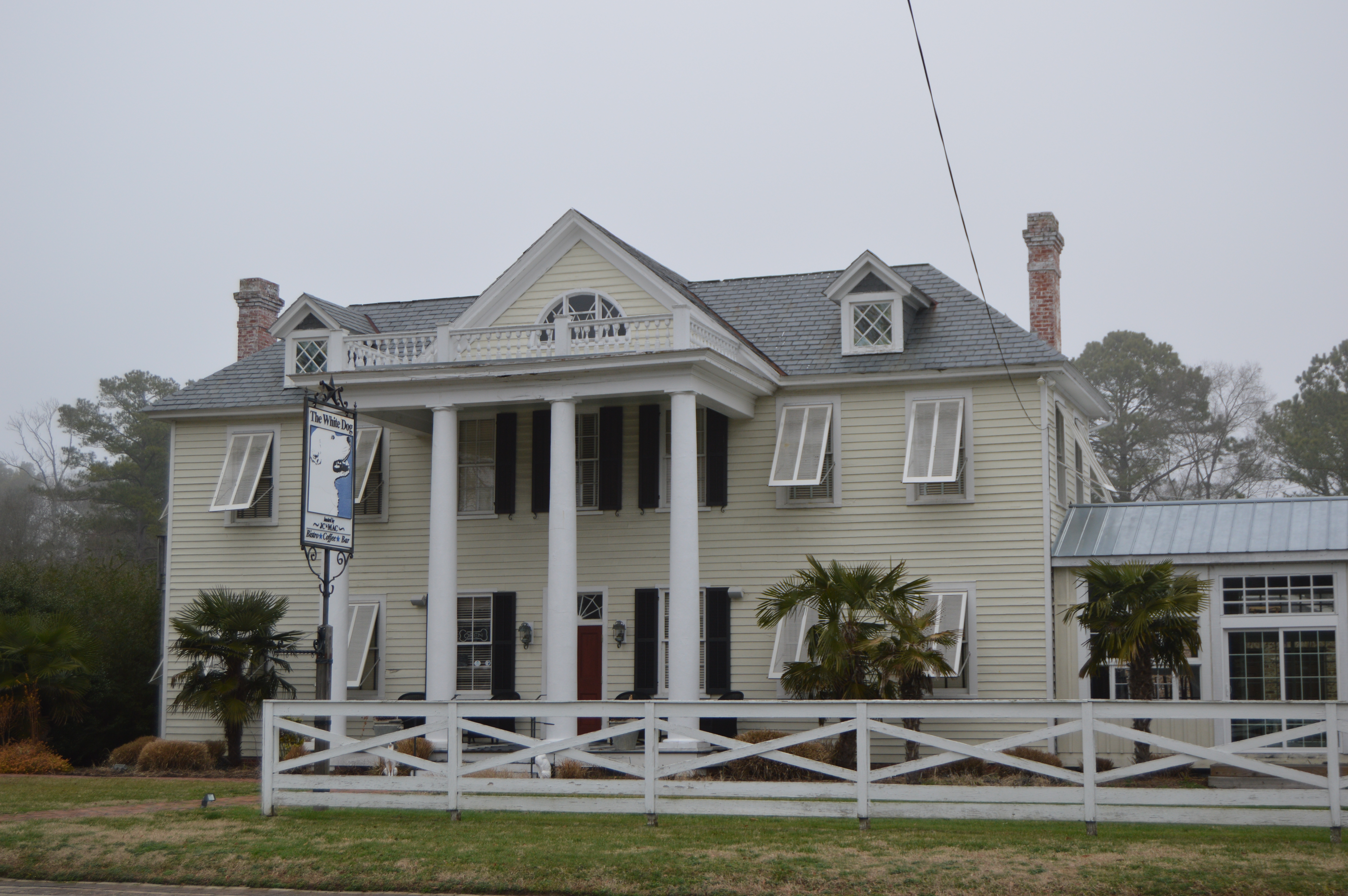 Front and eastern end of the Lane Hotel, located at 68 Church Street in central Mathews, Virginia, United States. Built in 1840, it is listed on the National Register of Historic Places.